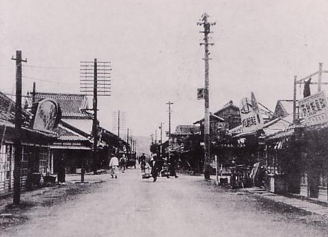 Fukuyama-Cho in Mokuho(Mokpo)